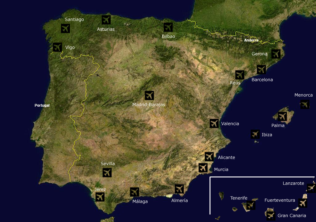 Major airports in Spain